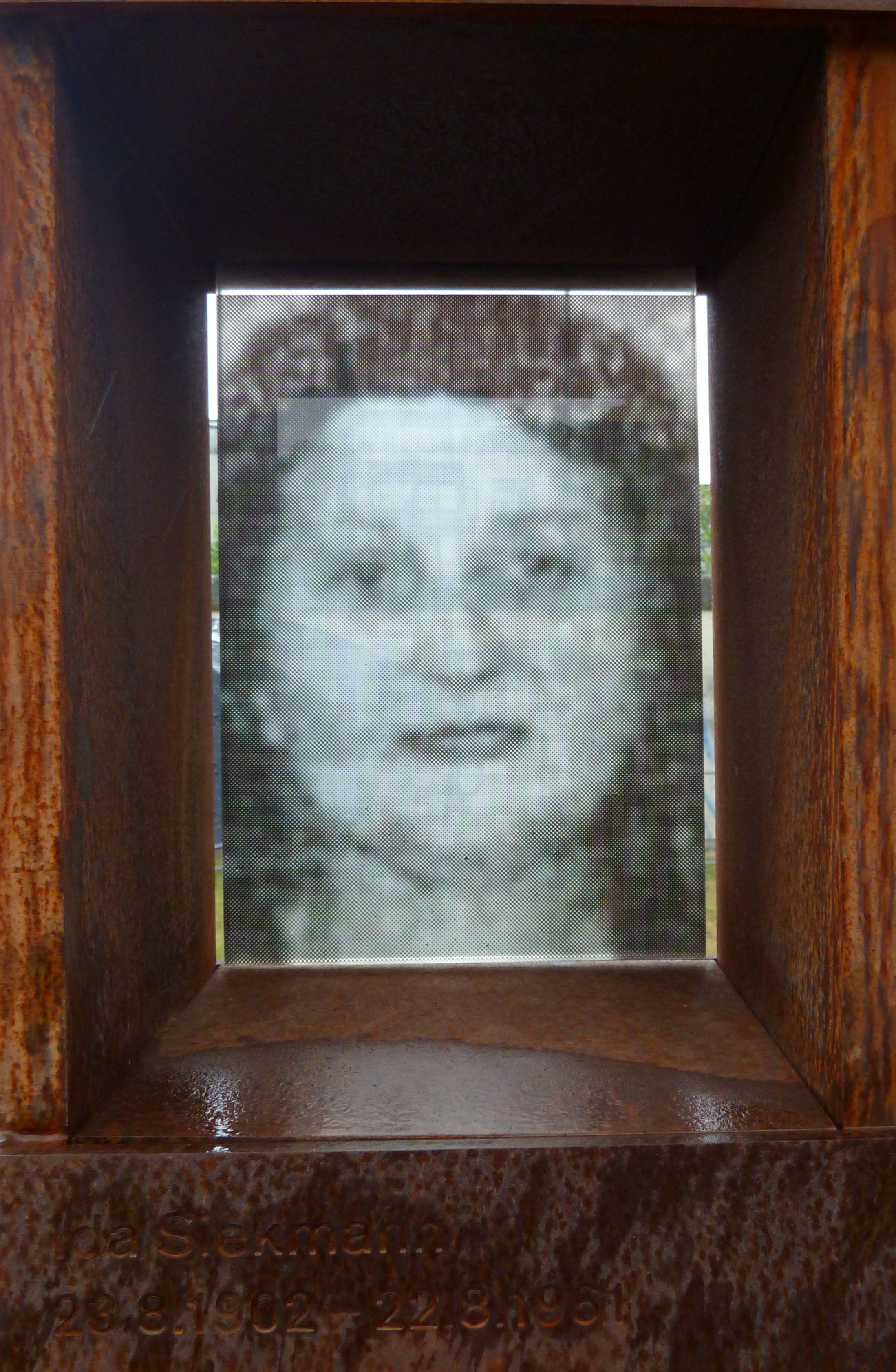 I took the picture myself at the Berlin Wall Memorial on Bernauer Strasse, in Berlin